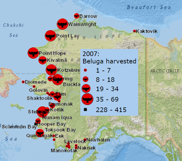 Alaska map showing how many beluga were harvested (caught) in 2007 and where.